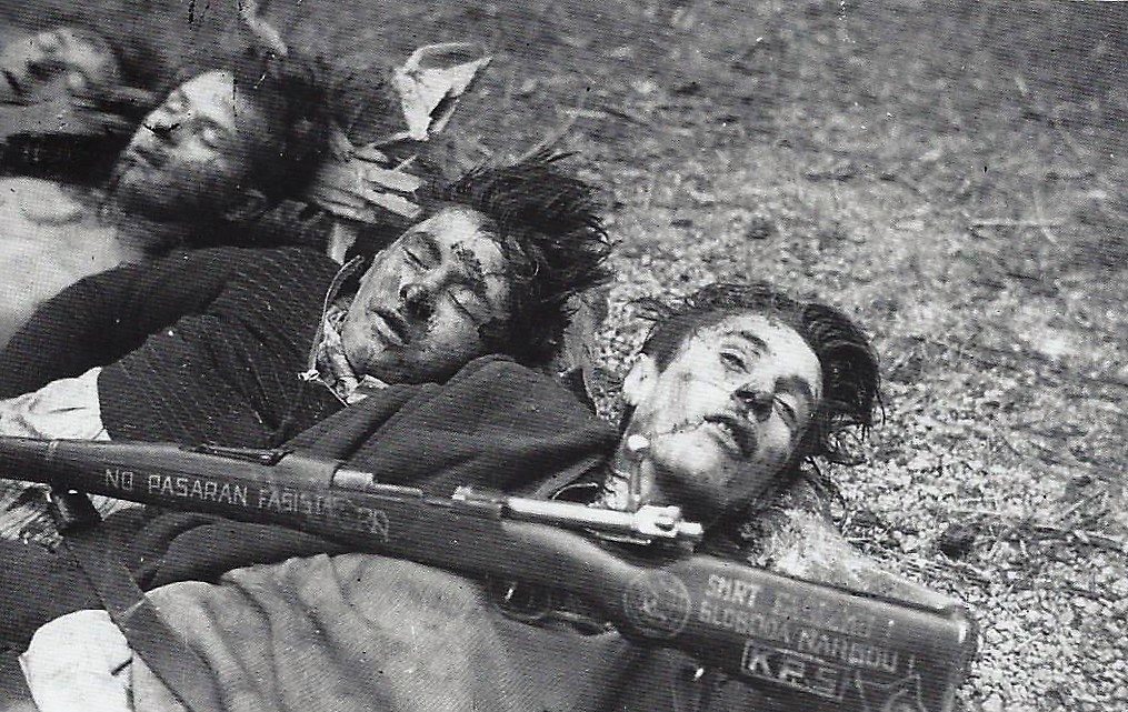 Padli partizani brežiške čete 28.11.1941